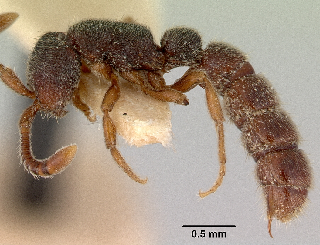 Profile view of ant Sphinctomyrmex caledonicus specimen casent0172078.